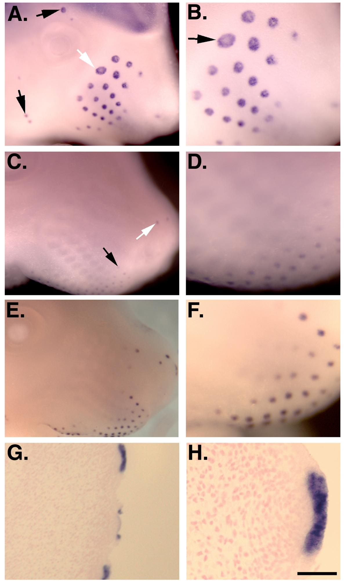 Gad1 transcripts in the developing vibrissae. (A, B) Expression at E12.5. (A) Gad1 RNA in the supra-orbital (black arrow at top of panel), lateral nasal/maxillary (white arrow) and postoral (black arrow bottom of panel) rows of vibrissae are indicated. (B) Higher magnification view of lateral nasal/maxillary vibrissal rows. The placode corresponding to the β vibrissa follicle [29] is indicated. (C-F) Gad1 transcripts in the vibrissae at E13.5 (C, D) and E14.5 (E, F). The initial faint expression in the rhinal (white arrow) and anterior maxillary vibrissae (black arrow) at E13.5 is indicated in panel C. (G, H) Coronal sections through the snout of E12.5 embryos hybridized to the Gad1 probe prior to sectioning. Scale bar: A, C, F 750 μm; E 1.5 mm; B 450 μm; D 400 μm; G 200 μm; H 25 μm. Maddox and Condie BMC Developmental Biology 2001 1:1